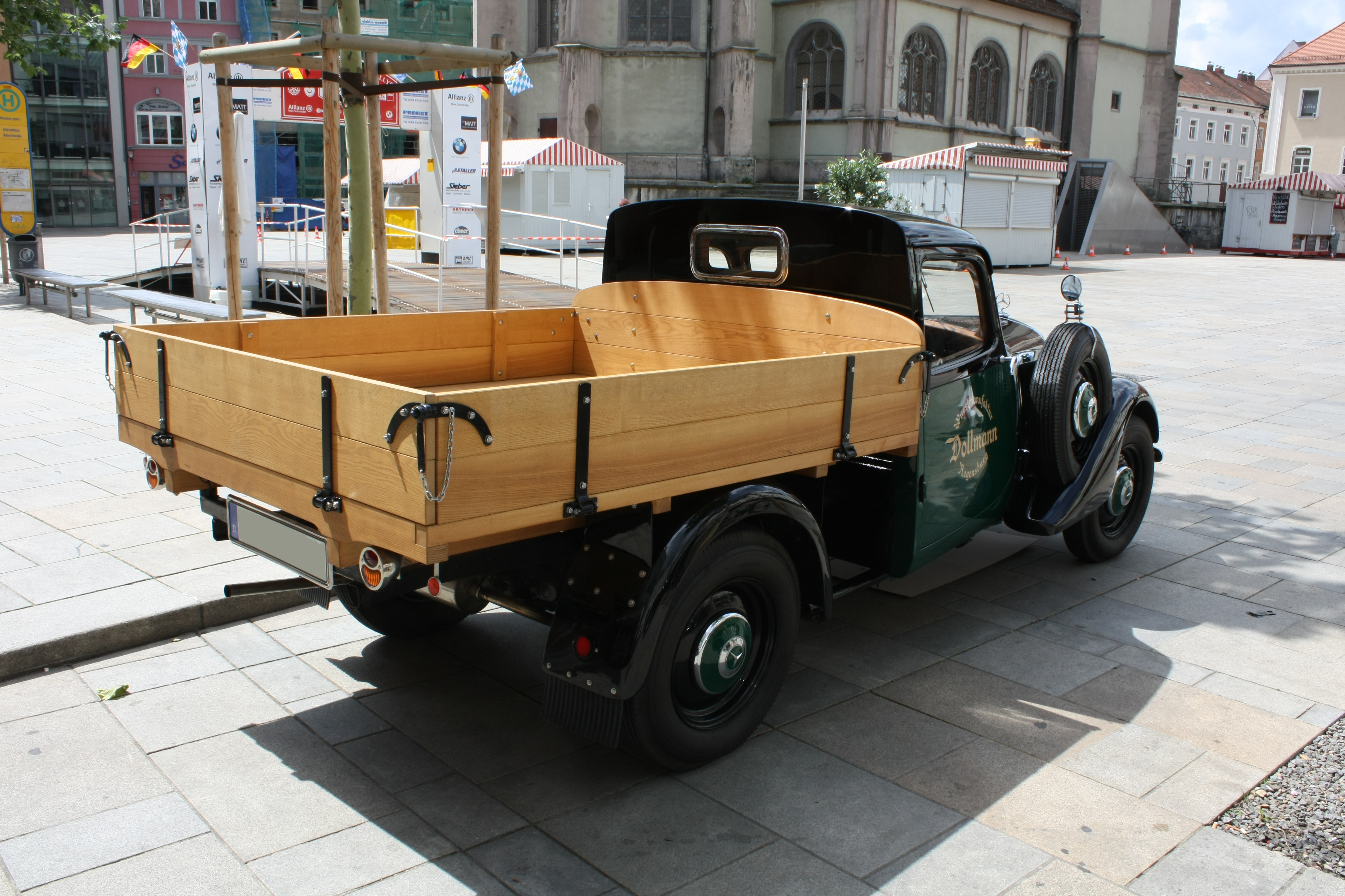 Mercedes-Benz W136 Type 170V pickup truck